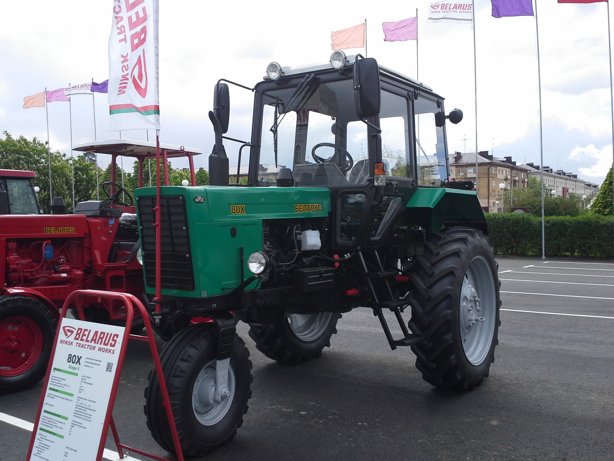 Belarus 80X tractor, Minsk Tractor Works